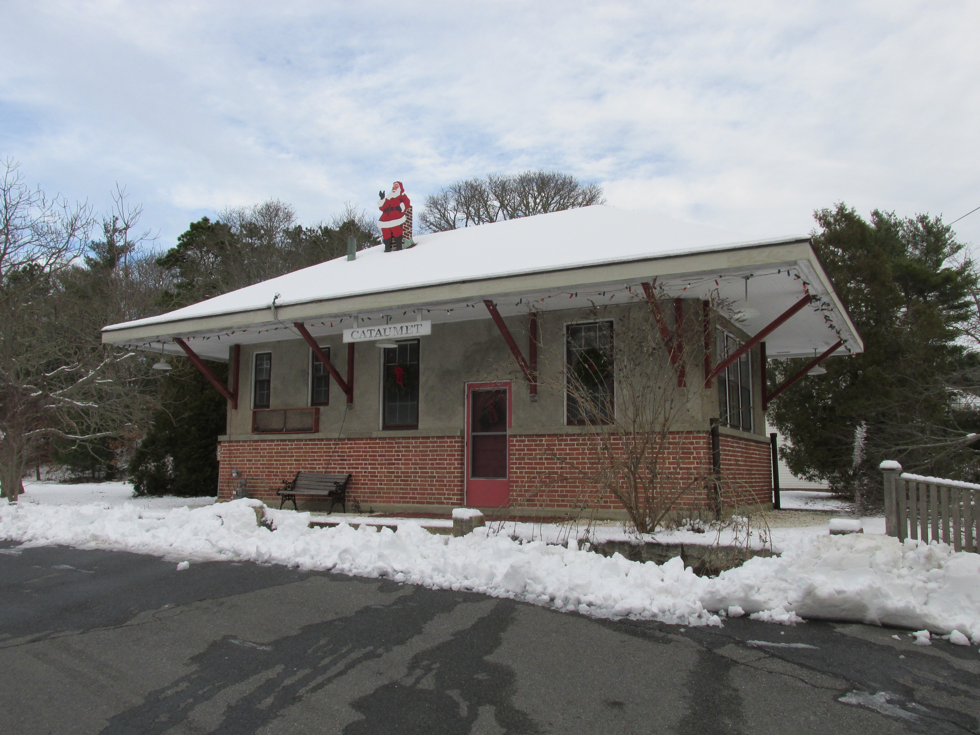 Cataumet Train Station, Cataumet Massachusetts